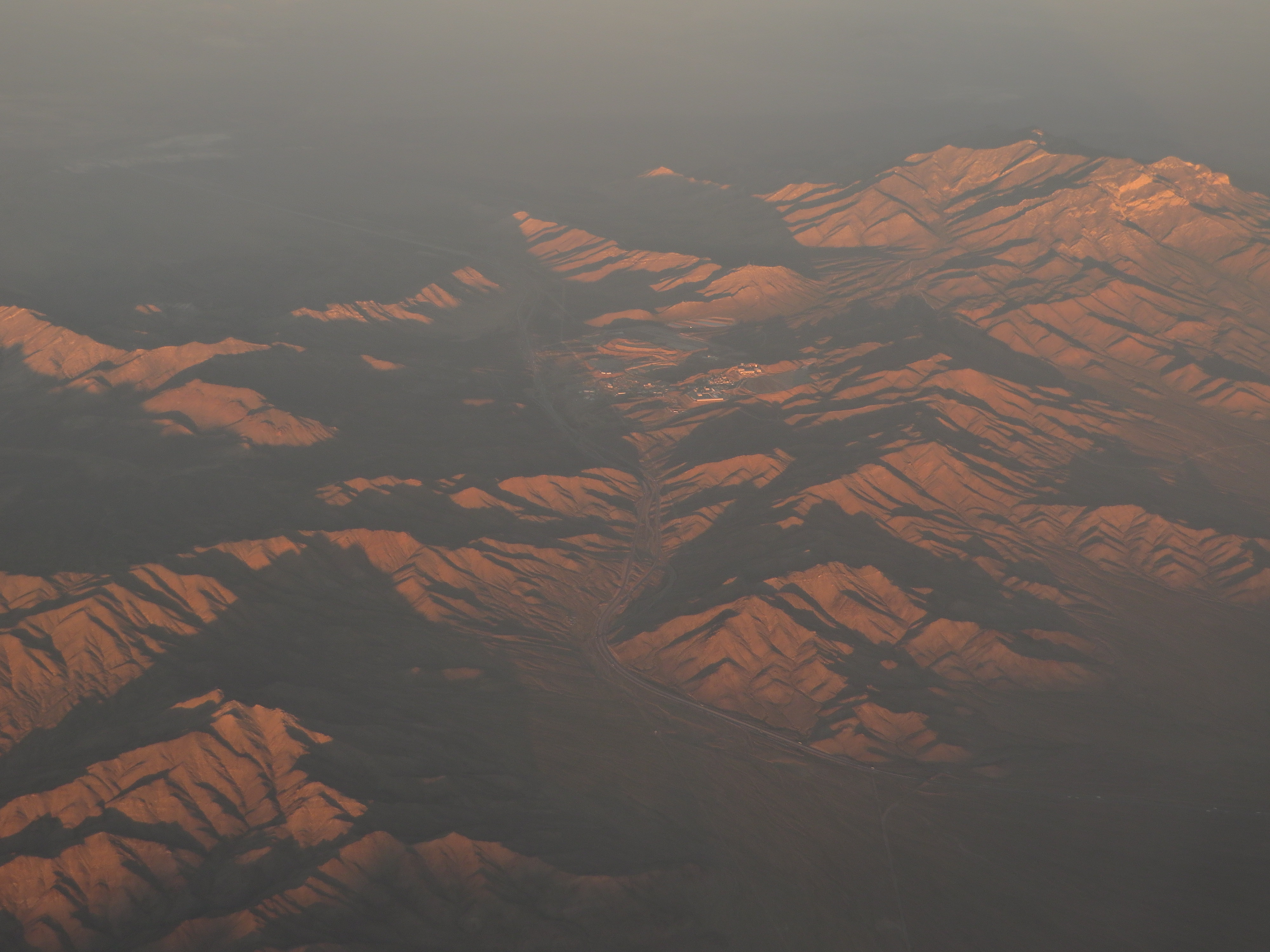 The Mountain Pass rare earth mine is an open-pit mine of rare earth elements (REEs) on the south flank of the Clark Mountain Range, just north of the unincorporated community of Mountain Pass, California, United States. The mine, owned by Molycorp Inc., once supplied most of the world's rare earth elements. The Mountain Pass deposit is in a 1.4 billion year old Precambrian carbonatite intruded into gneiss, and contains 8% to 12% rare earth oxides, mostly contained in the mineral bastnäsite. Gangue minerals include calcite, barite, and dolomite. It is regarded as a world-class rare-earth mineral deposit. The metals that can be extracted from it include: Cerium Lanthanum Neodymium Europium Known remaining reserves were estimated to exceed 20 million tons of ore as of 2008, using a 5% cutoff grade, and averaging 8.9% rare earth oxides. The mine, once the world's dominant producer of rare earth elements, was closed in large part due to competition from REEs imported from China, which in 2009 supplied more than 96% of the world's REEs. Since 2007 China has restricted exports of REEs and imposed export tariffs, both to conserve resources and to give preference to Chinese manufacturers. Some outside China are concerned that because rare earths are essential to some high-tech, renewable-energy, and defense-related technologies, the world should not be reliant on a single source.